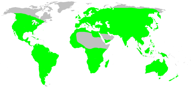 Distribution of the family Trombiculidae